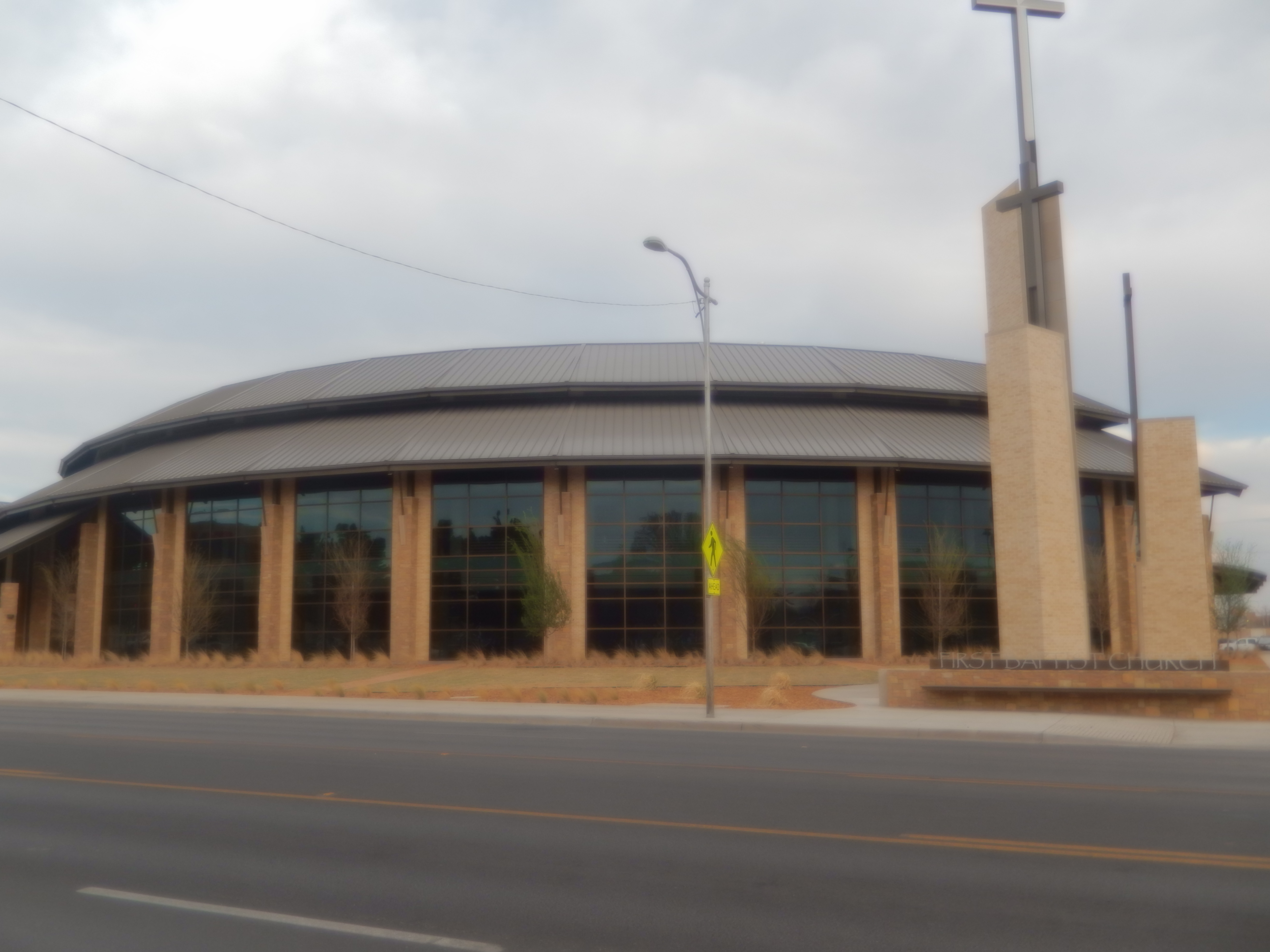 I took photo of First Baptist Church, Odessa, TX, with Nikon camera.